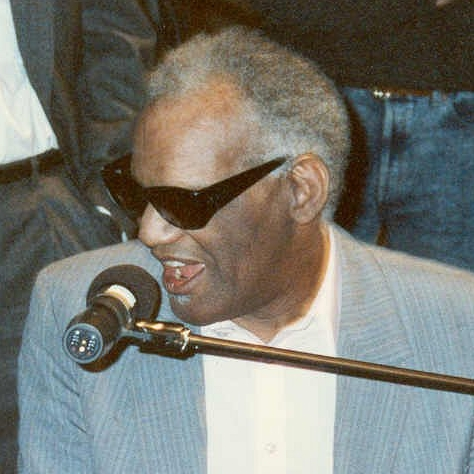 Photo of Ray Charles at Grammy Awards rehearsal (cropped from original).